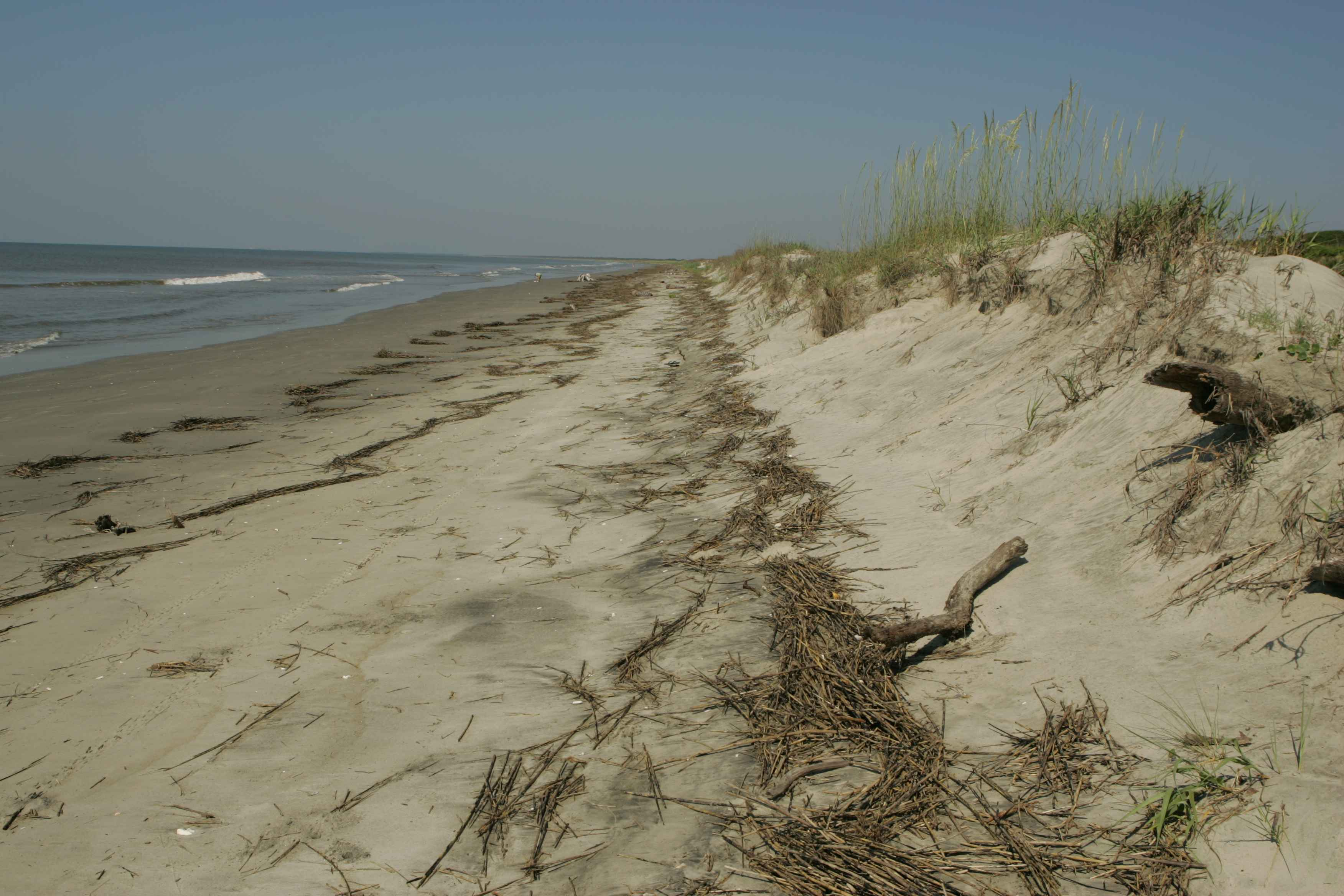 Image title: Wrack line reveals last high tide mark near the dunes Image from Public domain images website